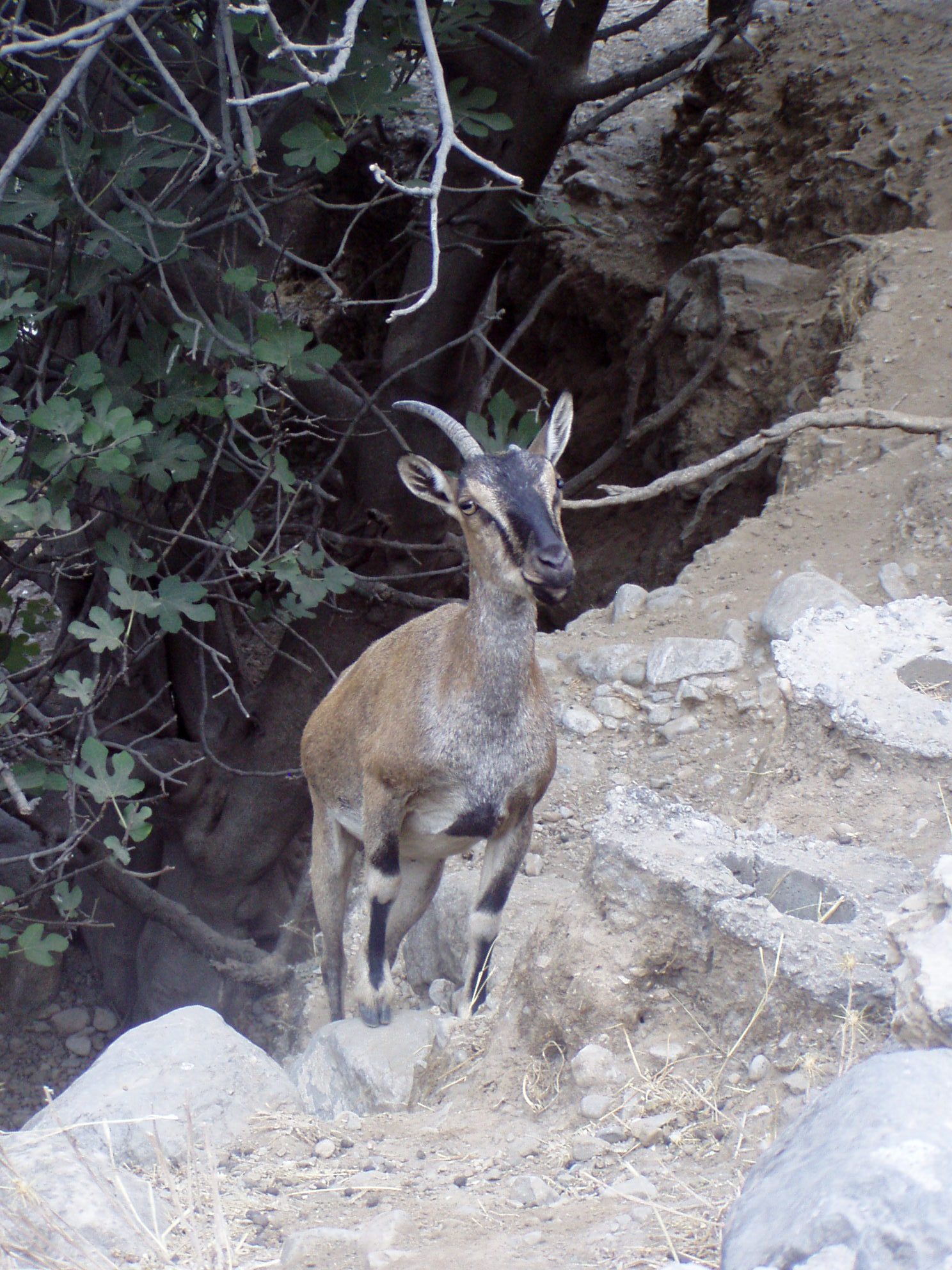 The Cretan goat, Kri-kri (Capra aegagrus creticus). Photographed in Samarian gorge.